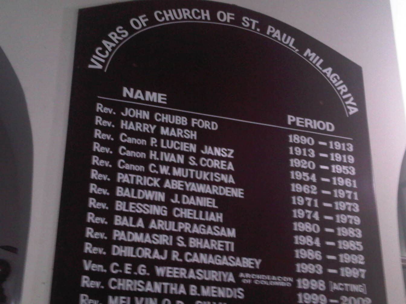 Vicars of St.Paul's Church Milagiriya - one of the oldest Anglican Churches in Sri Lanka.